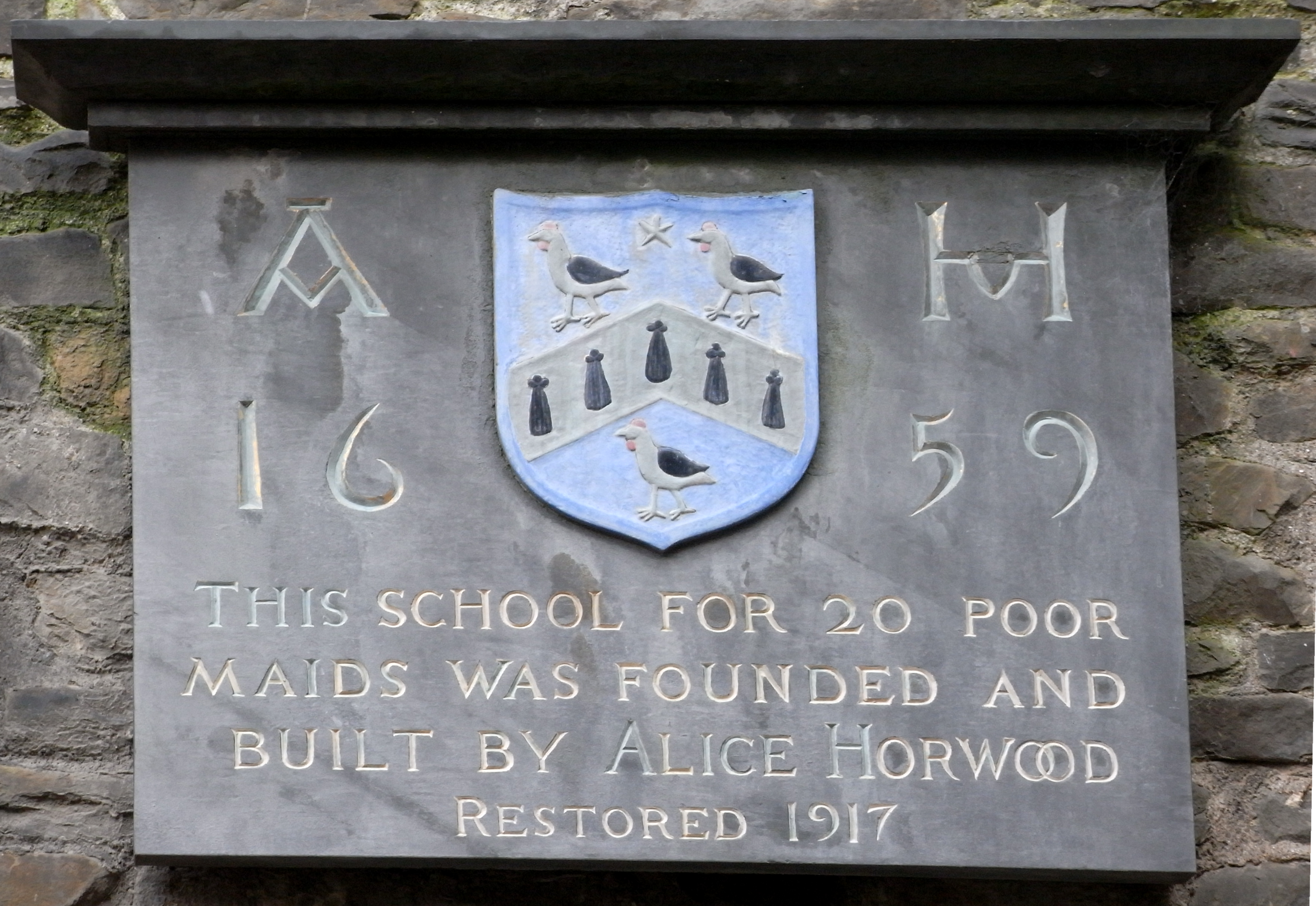 Slate tablet affixed to wall of the "Old School Coffee Shop" in Church Lane, Barnstaple, Devon. Inscribed: "A.H. 1659. This school for 20 poor maids was founded and built by Alice Horwood. Restored 1917", and shows the arms of Horwood: Azure, a chevron ermine between three hens passant argent winged sable wattled gules in chief a mullet argent for difference. Alice Horwood was the widow of Thomas Horwood (d.1658), twice Mayor of Barnstaple, in 1640 and 1653, whose own "Horwood's Almshouses" adjoin to the left. Adjoining the latter are "Paige's Almshouses", founded by his sister Elzabeth Horwood (Mrs Paige), widow of Gilbert I Paige (d.1647), twice Mayor of Barnstaple in 1629 and 1641.